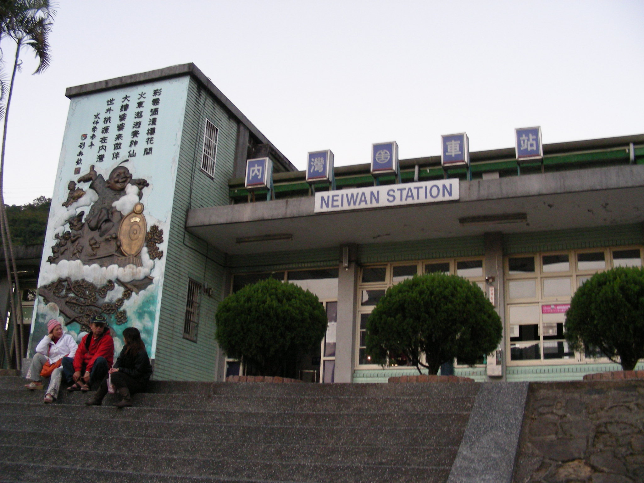 TRA Neiwan Station.